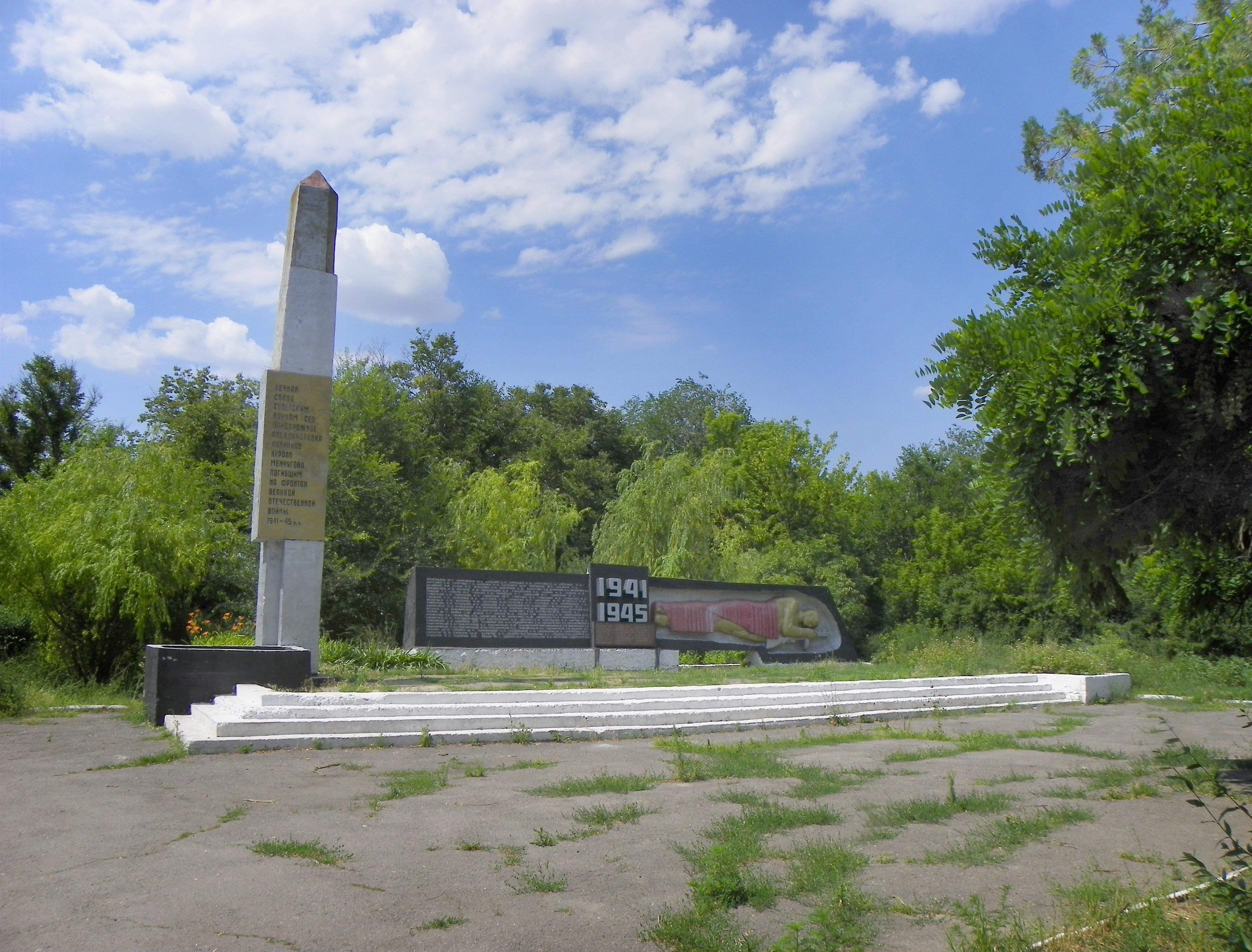 Monument in Prydorozhne village, Donetsk region, Ukraine.